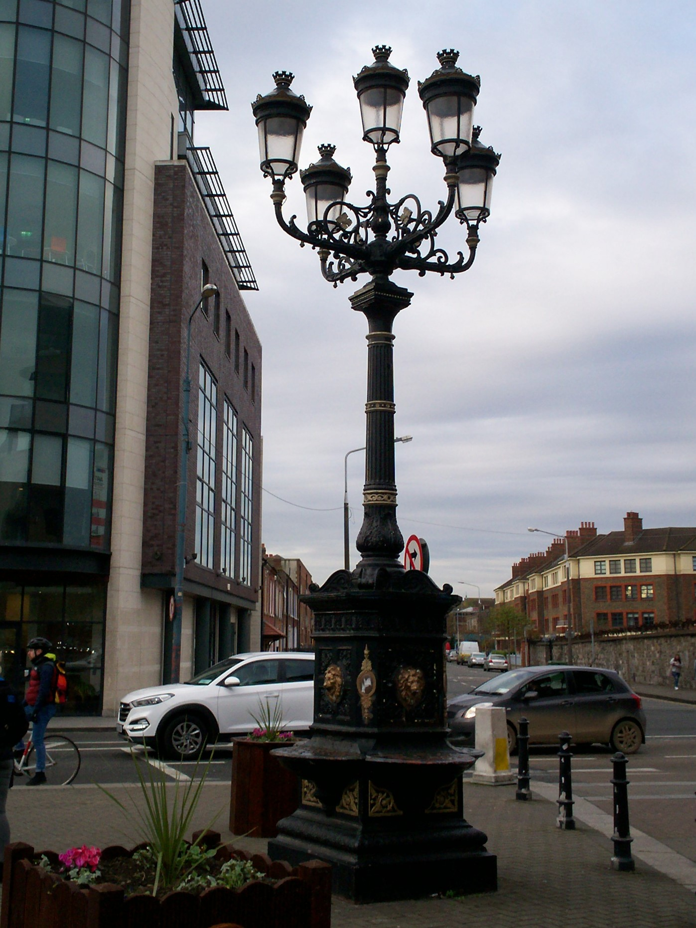 View of five lamps looking west to Killarney Street